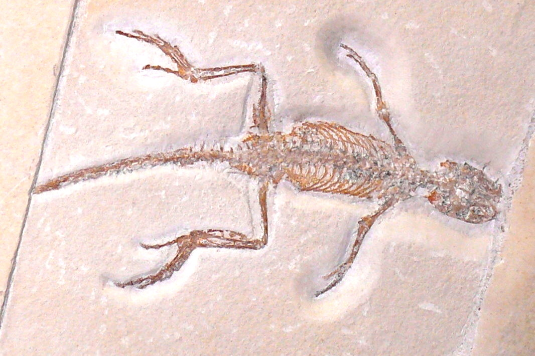 Homoeosaurus, Eichstätt